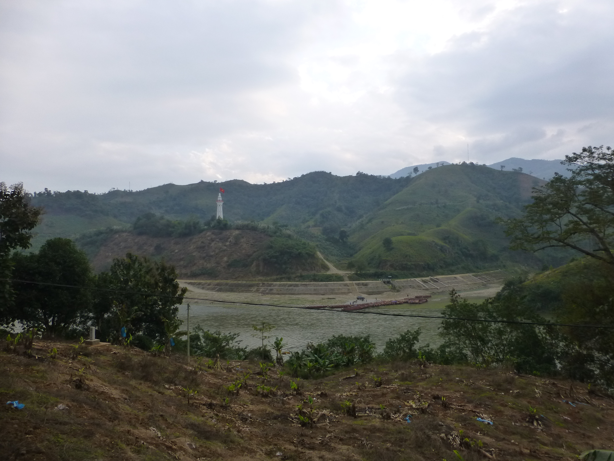 The confluence of the Longbao River (龙保河 and the Red River, near Wudaokou, Hekou County, Yunnan. This is the junction point of China's Hekou County (left bank of the Red River), China's Jinping County (between the two rivers), and Vietnam (right bank of the two rivers). There is a tall tower on the Vietnamese side